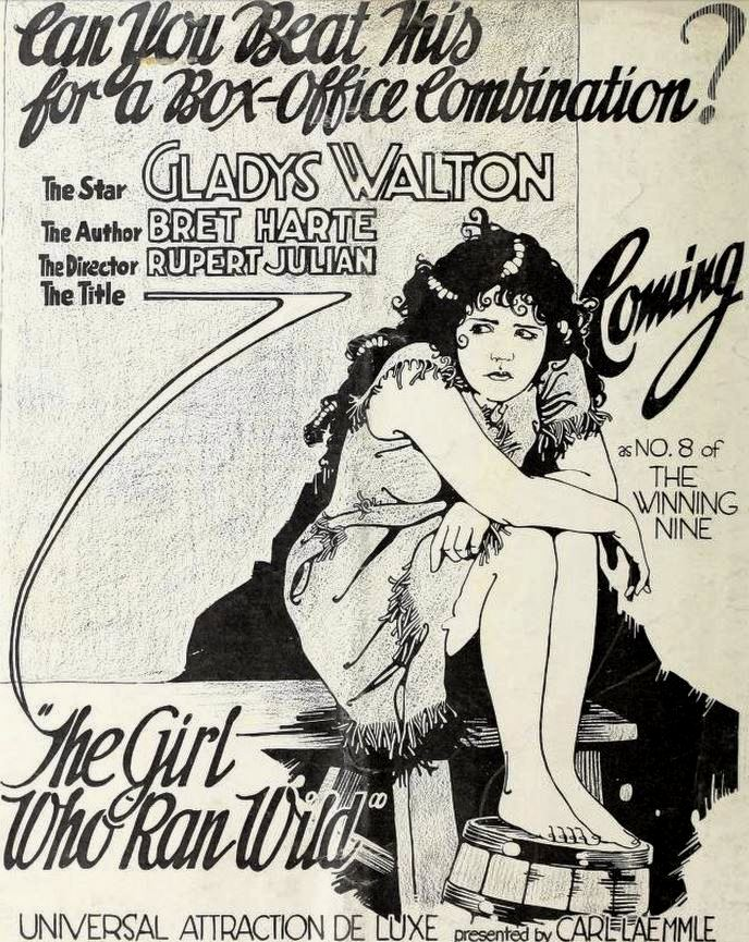 Advertisement for the American comedy drama film The Girl Who Ran Wild (1922), on the back cover of the October 7, 1922 Universal Weekly.